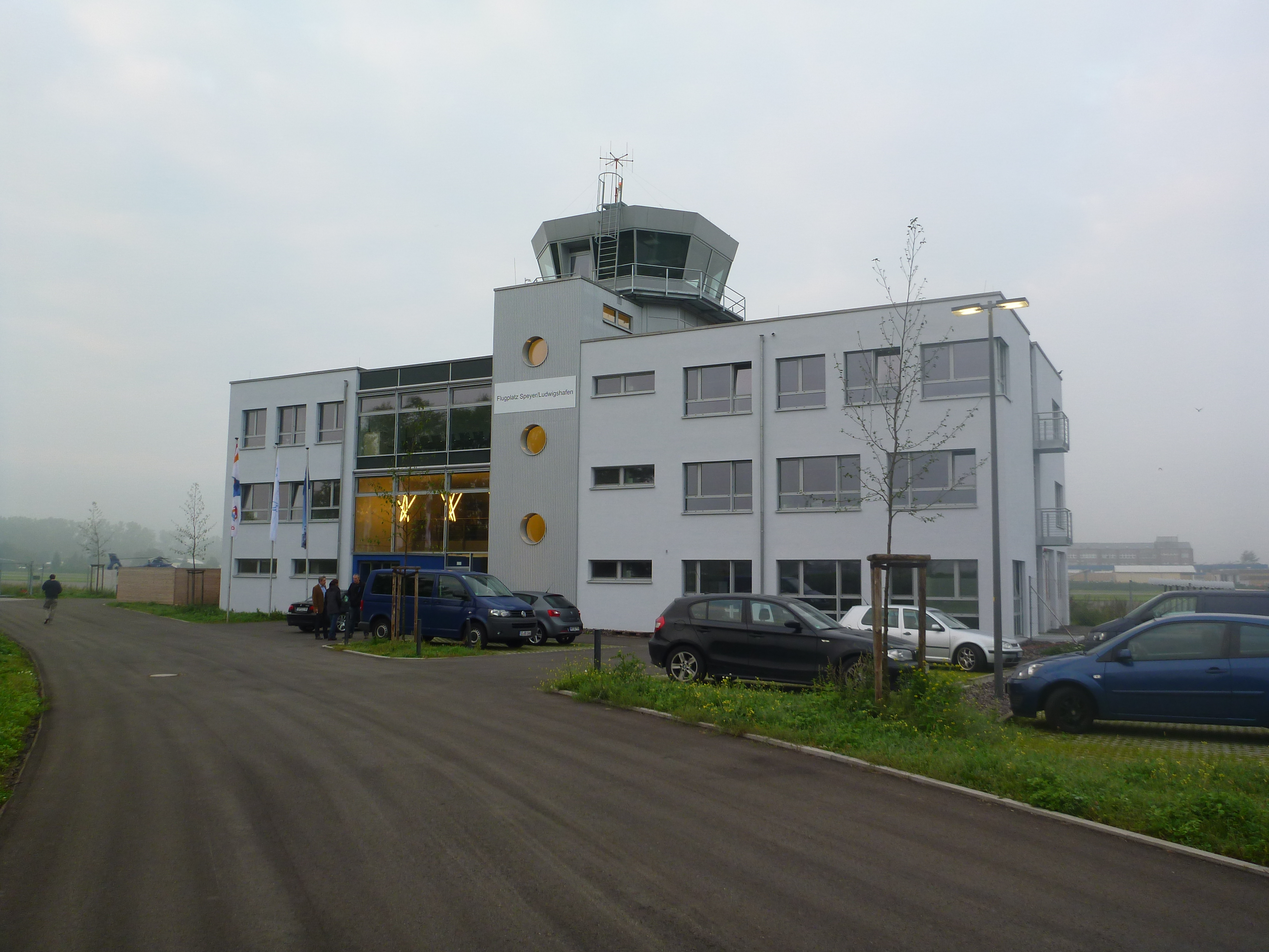 Main building of airport Speyer-Ludwigshafen